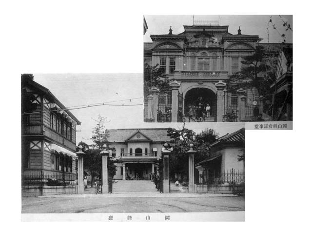 Former Parliament building(above) and Former Gov. building(below) of Okayama prefecture in Okayama city.